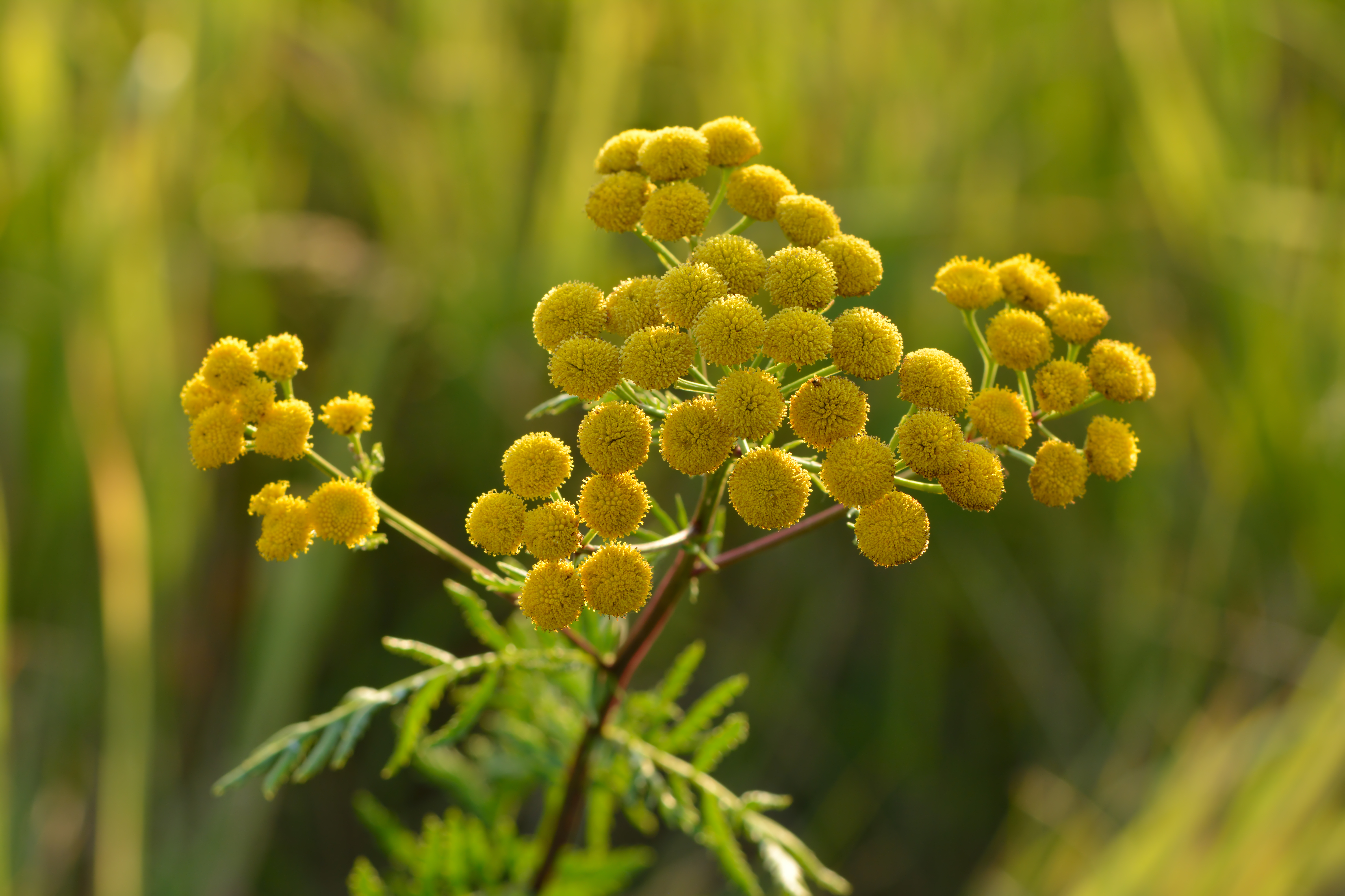 Tanacetum vulgare - common tansy in Keila, Estonia.